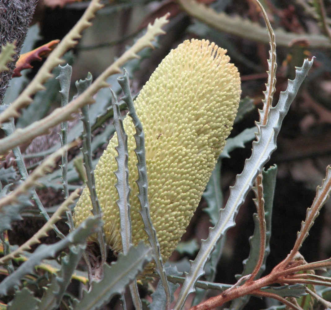 Banksia pilostylis, Maranoa Gardens, Balwyn, Victoria, Australia.